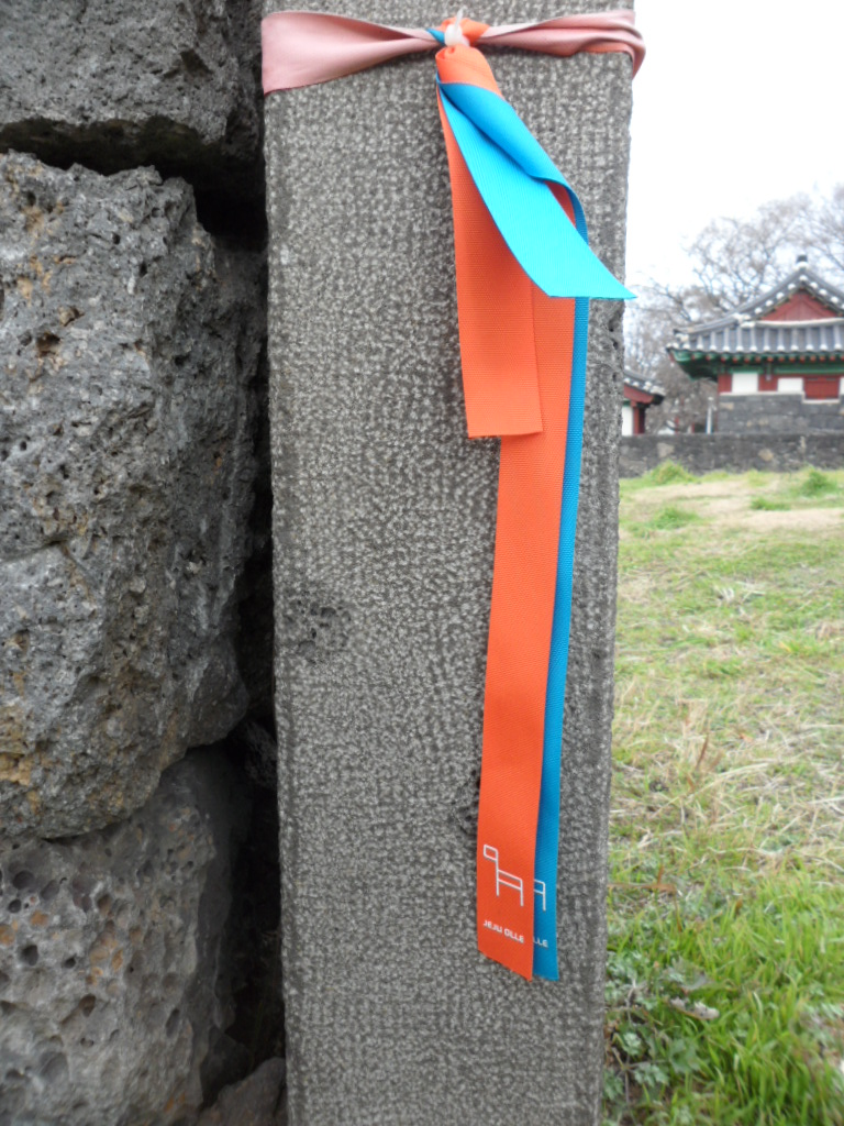 Jeju Olle Sign.